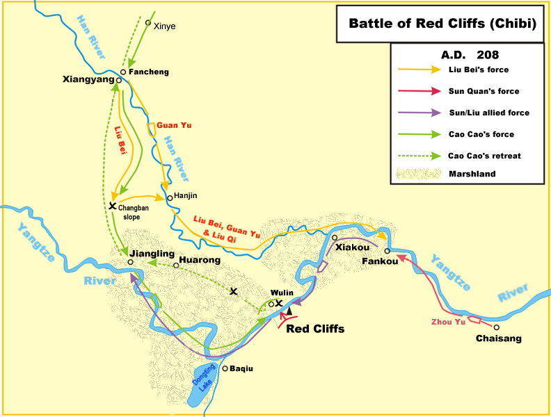 Batle of Red Cliffs. English version of Image:Chibizhizhan.png.